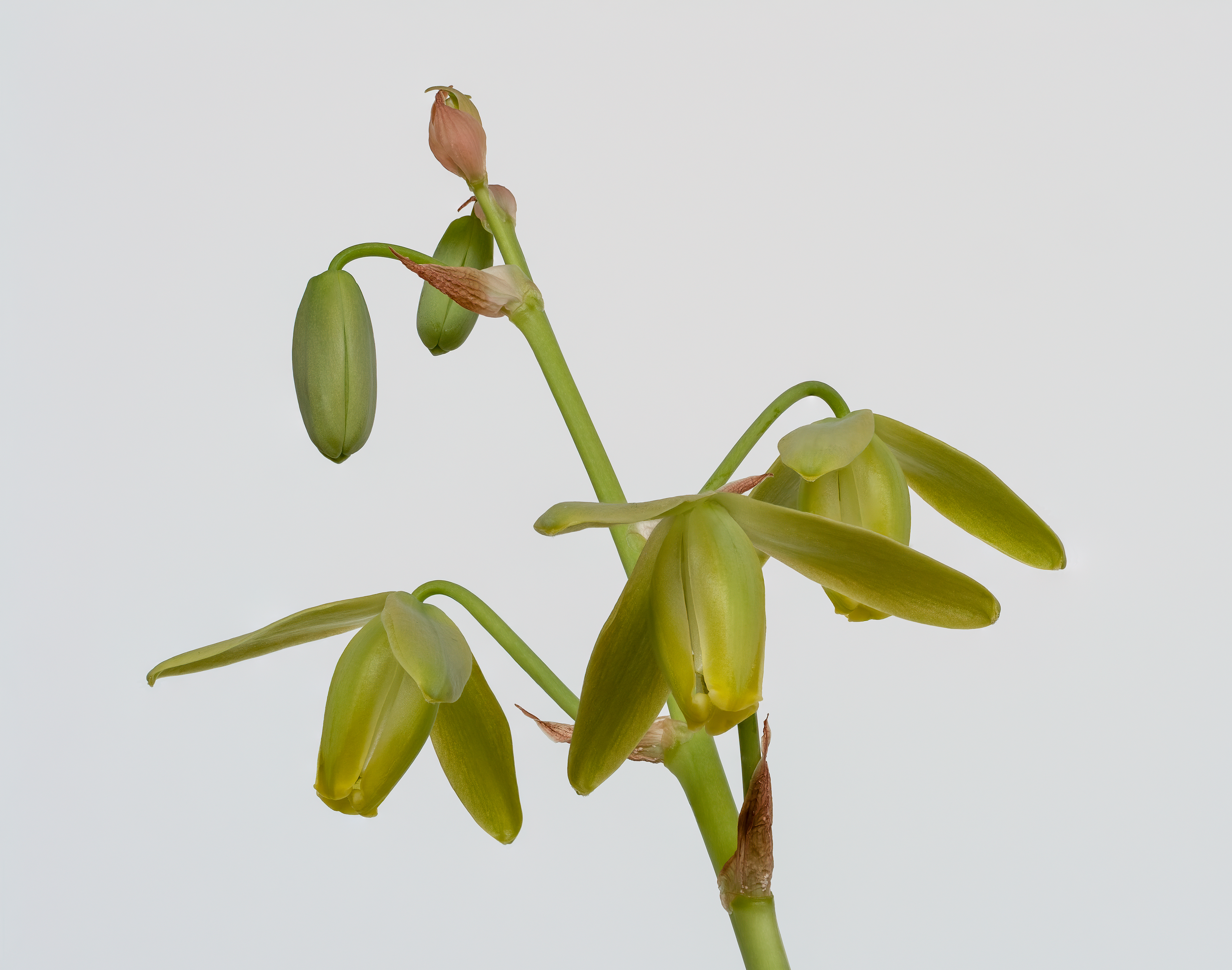 Frizzle sizzle (Albuca spiralis). Focus stacked image (29 frames).